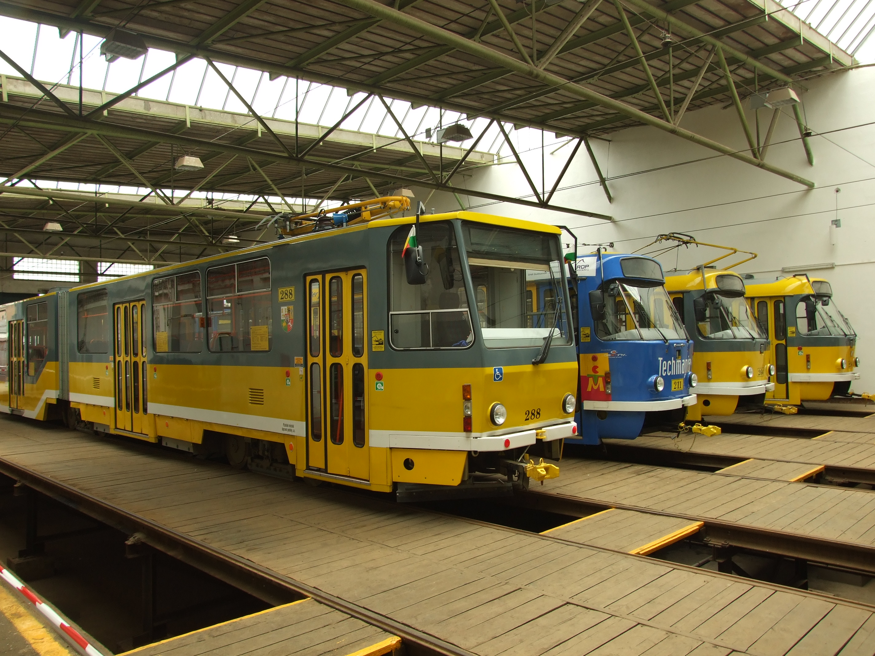 110th anniversary of public transport in Plzeň, Plzeň Region, CZ. Trams in the Slovany depot, located in south-eastern part of Plzeň